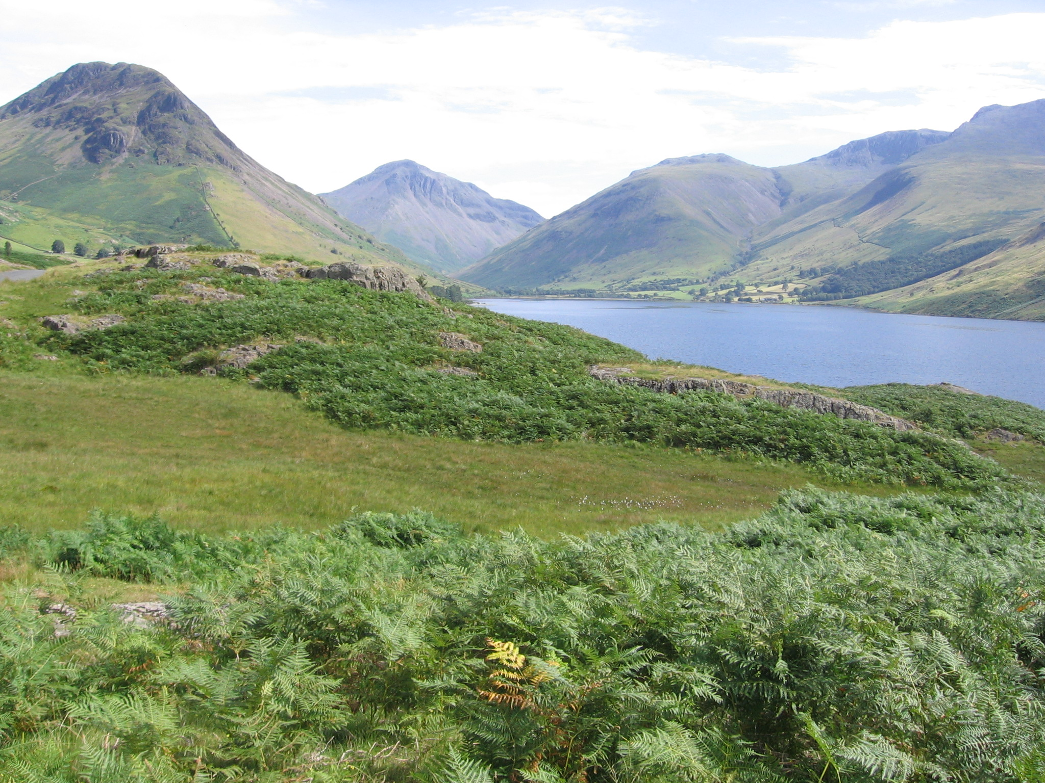 Author Peter Moore. Self-made image